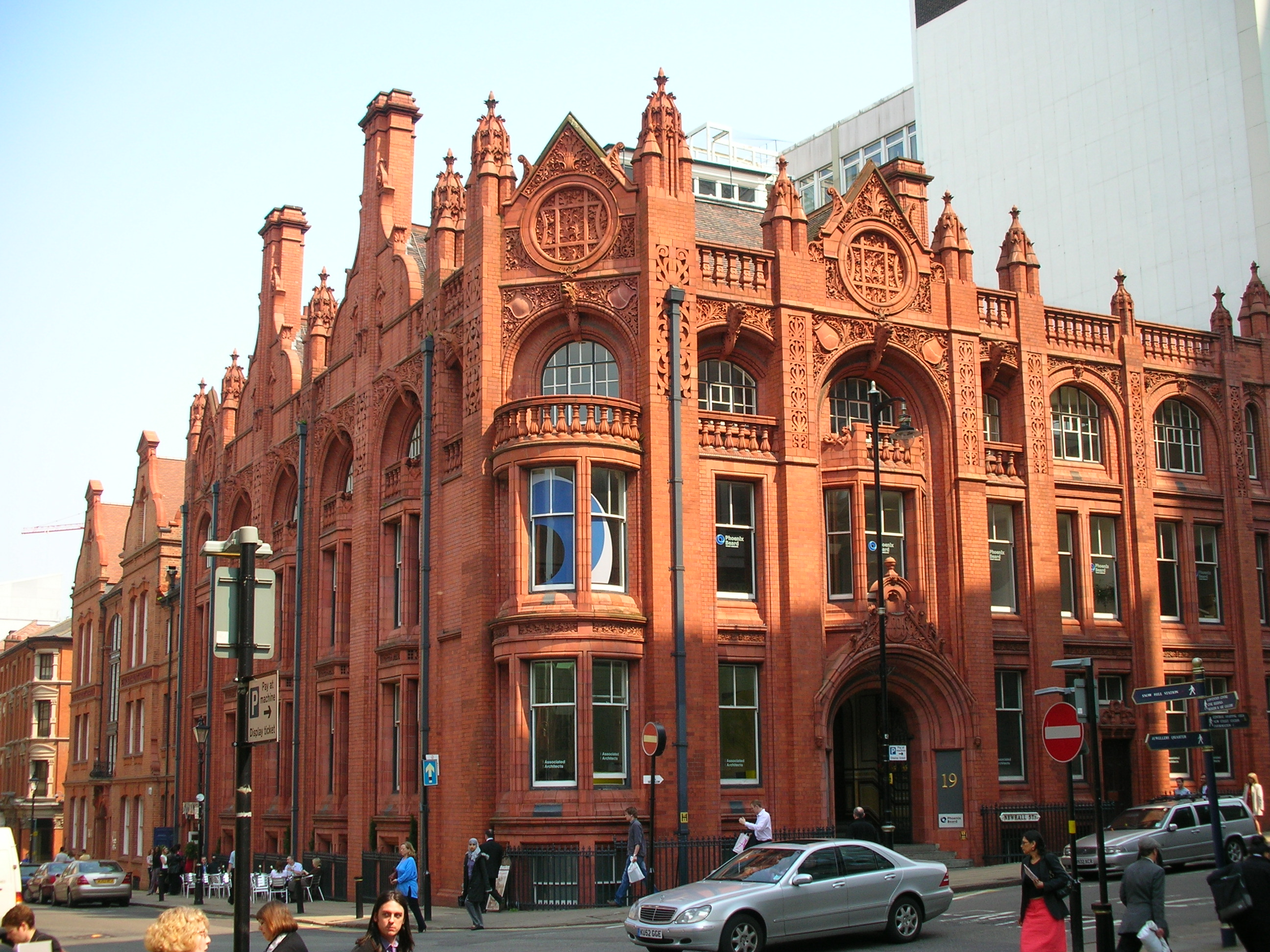 The 1896 Victorian terracotta Bell Edison Telephone Building - 17 & 19 Newhall Street, Birmingham, England. A grade I listed building designed by Frederick Martin of the firm Martin & Chamberlain. Now offices for firms of architects. Photographed by me 10 May 2006. Oosoom